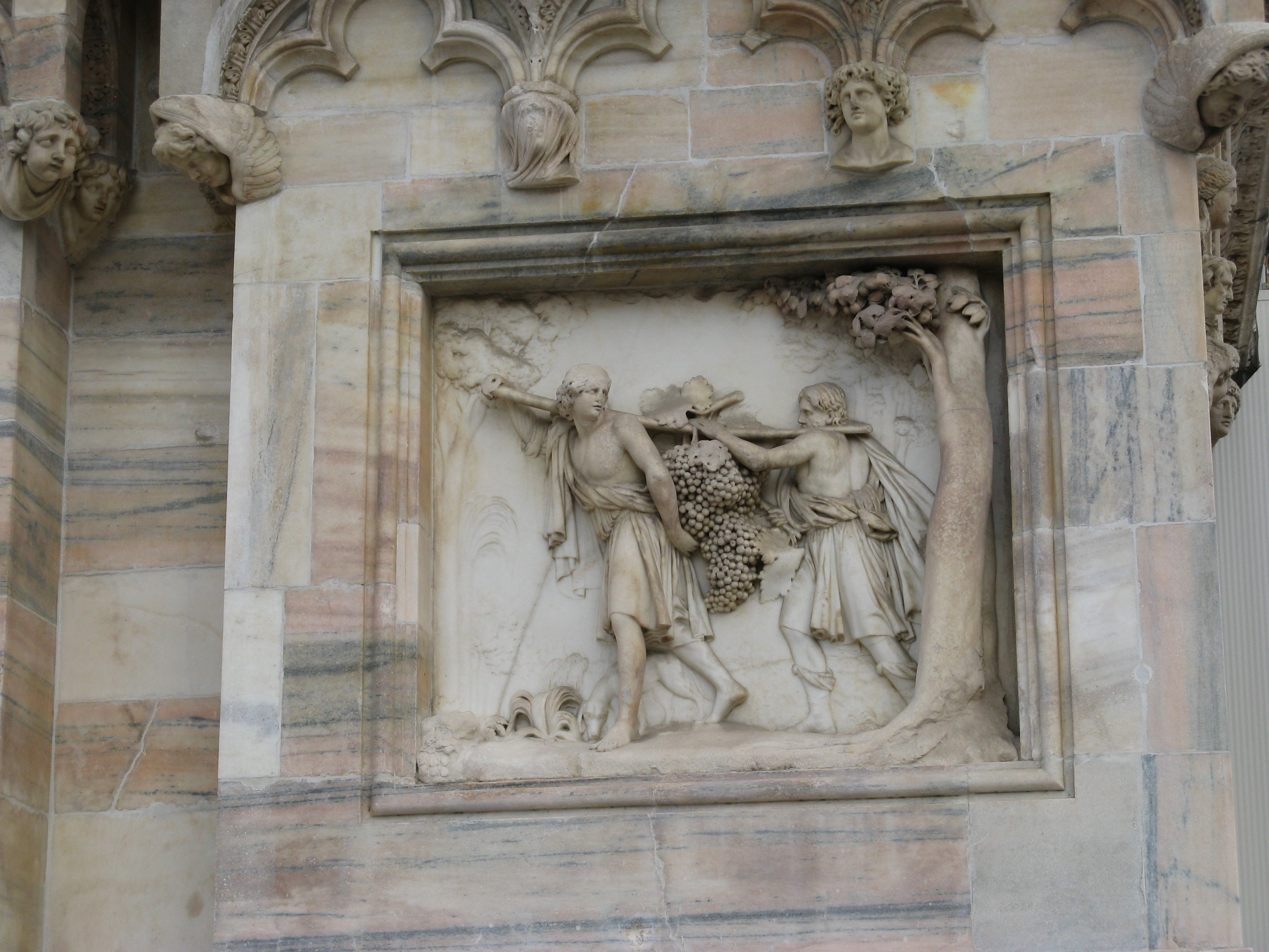 Israelites carrying grapes of Canaan by Francesco Carabelli.